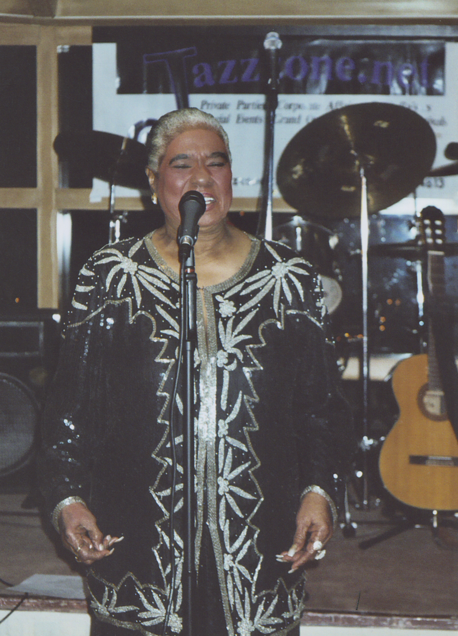 Linda Hopkins in Performance